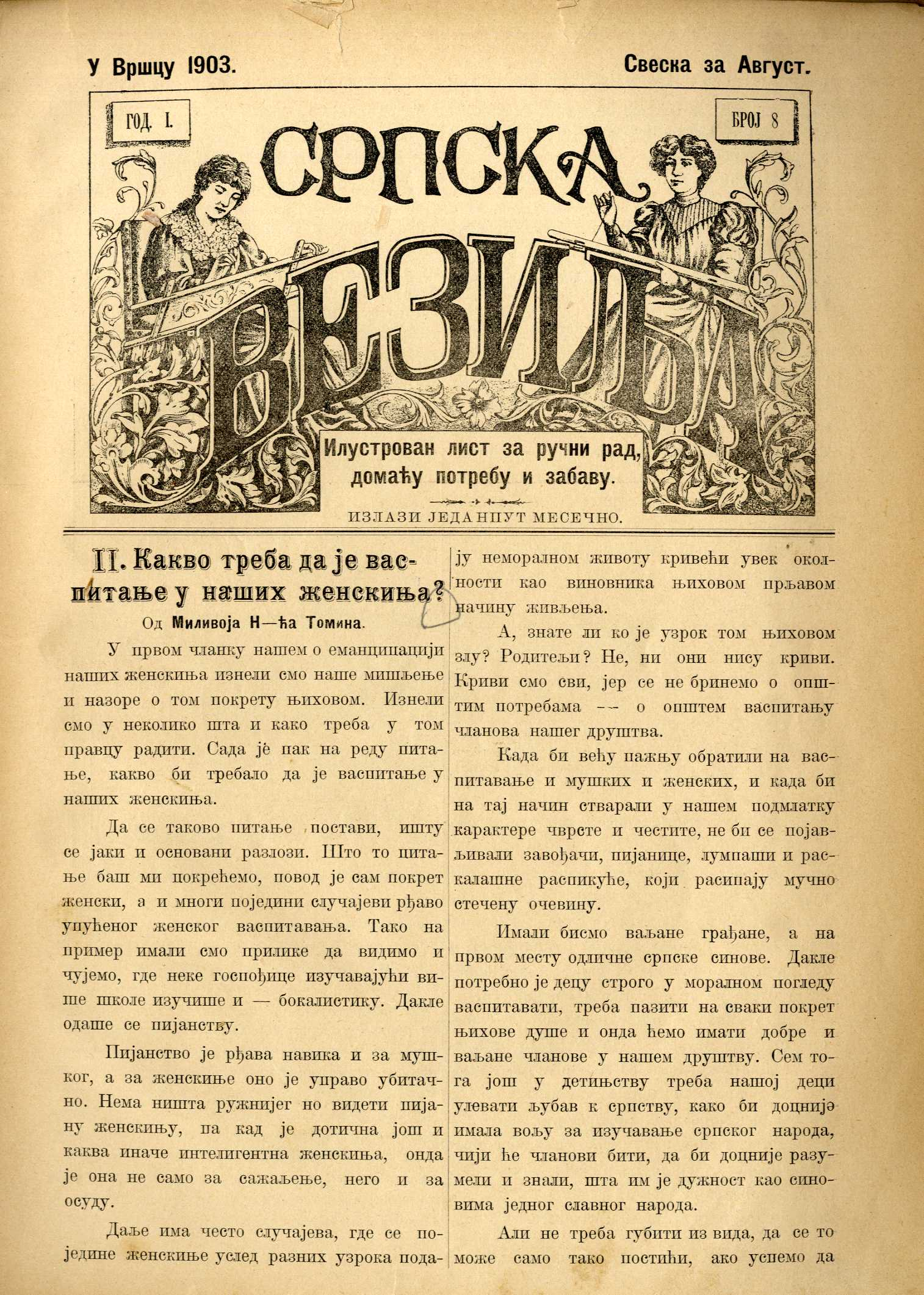 Cover page Magazine Srpska vezilja, number 8, 1903.